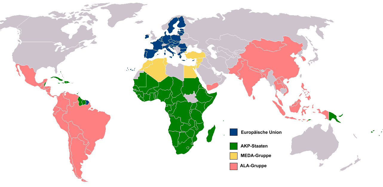 World map, EU marked blue, countries receiving development aids by EU marked gree, yellow, red